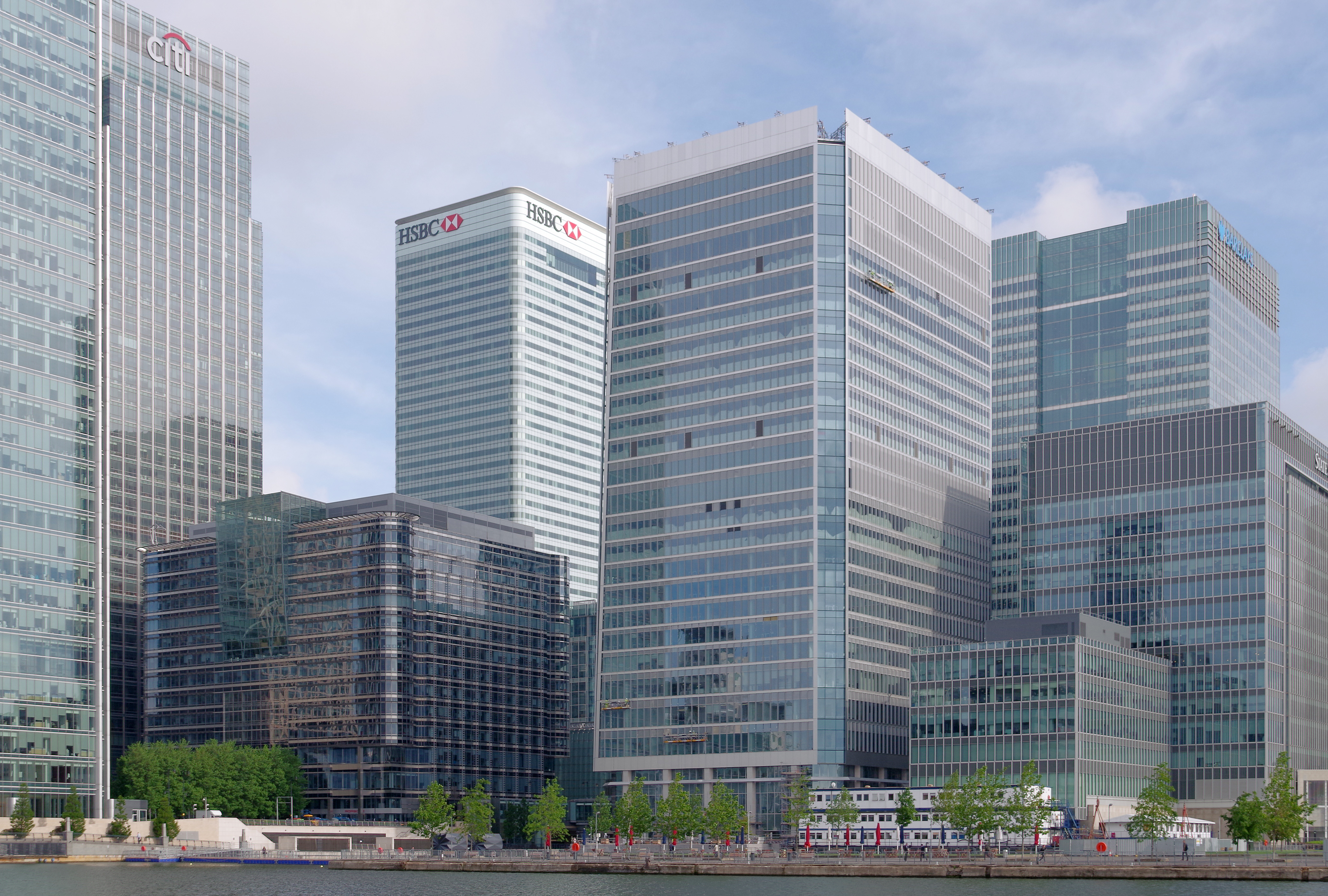 The skyscrapers of Canary Wharf on a sunny morning.